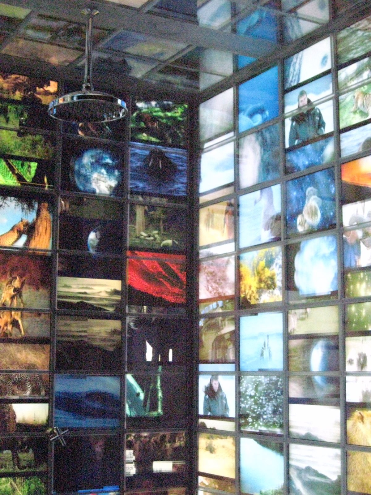 Russian pavilion, 52nd International Art Exhibition, Venice